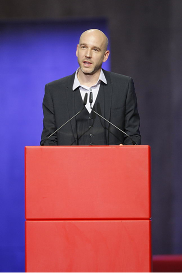 Paul Herwig for his role as Johannes Pinneberg in "Little Man What Now" by Hans Fallada, directed by Luk Perceval, Münchner Kammerspiele